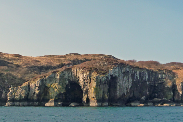 Sea caves on Wiay Superb caves and arches on the north east corner of the uninhabited island of Wiay, in Loch Bracadale.